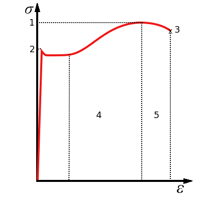 Based on Image:Stress v strain A36 2.png, changed axis description, arrows